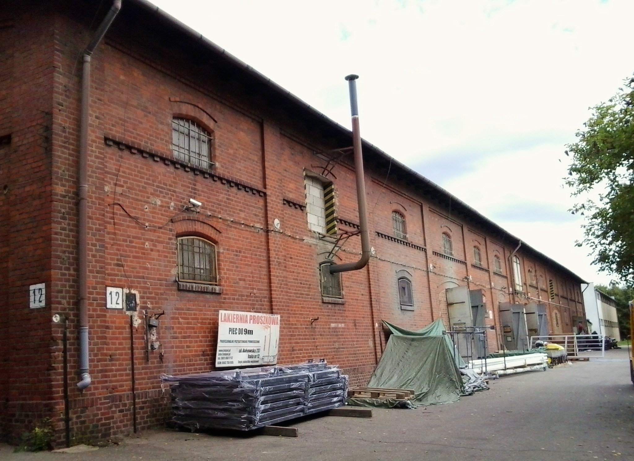 Edwardowo Farm in Poznań.